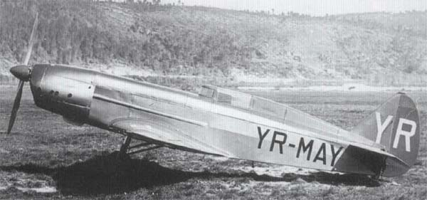 FN .05D Argus As.10E YR-MAY